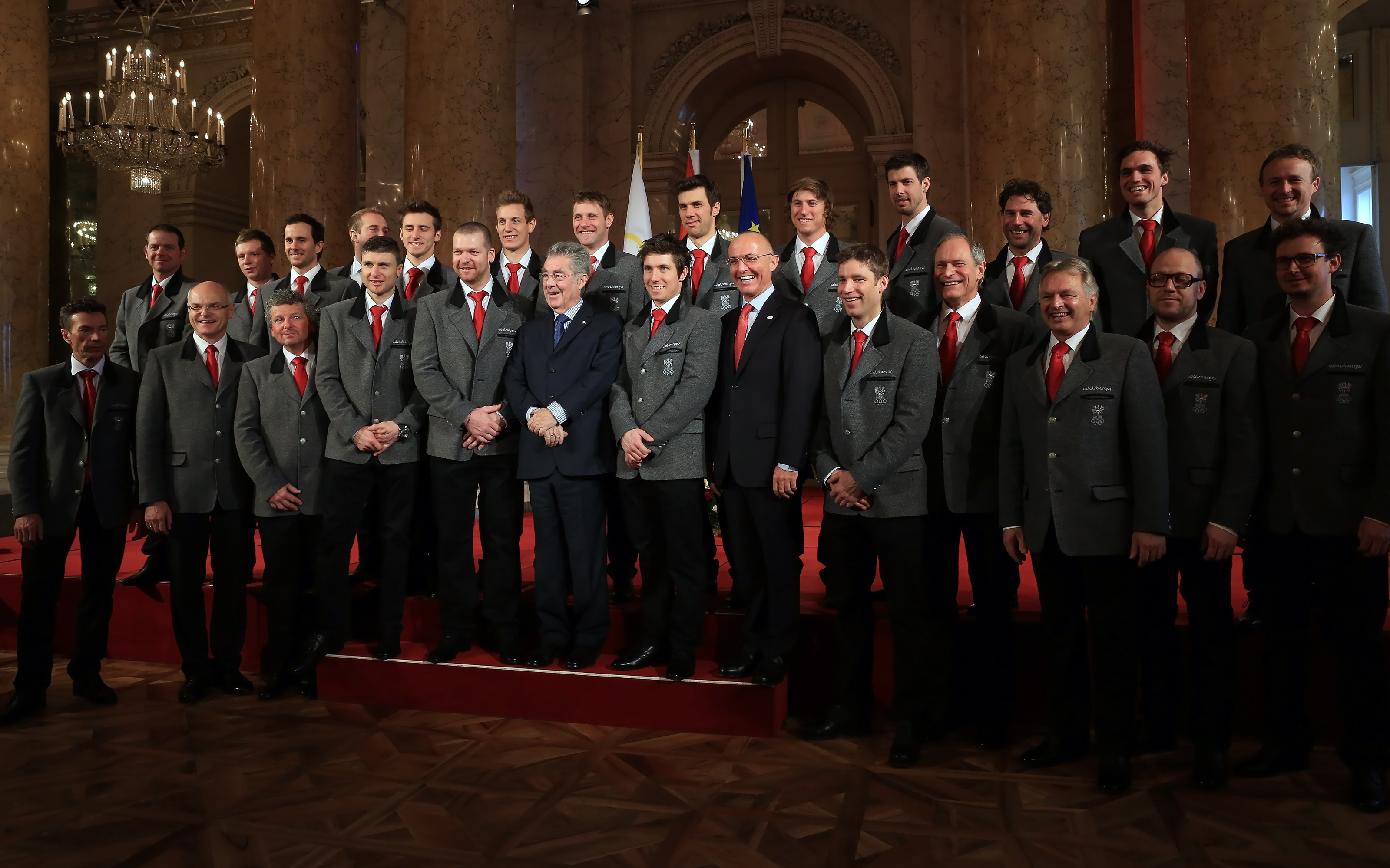 Athletes of the Austrian team for the 2014 Winter Olympics - Alpine skiing/men: Romed Baumann, Max Franz, Reinfried Herbst, Marcel Hirscher, Klaus Kröll, Mario Matt, Matthias Mayer, Joachim Puchner, Benjamin Raich, Philipp Schörghofer, Georg Streitberger, Otmar Striedinger and support team with Federal President Heinz Fischer, Federal Minister Gerald Klug and ÖOC officials Karl Stoss and Peter Mennel; group picture taken at Hofburg Palace in Vienna, Austria.